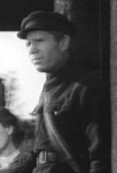 Ivan Ryzhov as a watchman in Boy from the Outskirts (1947)